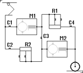 Electric motors